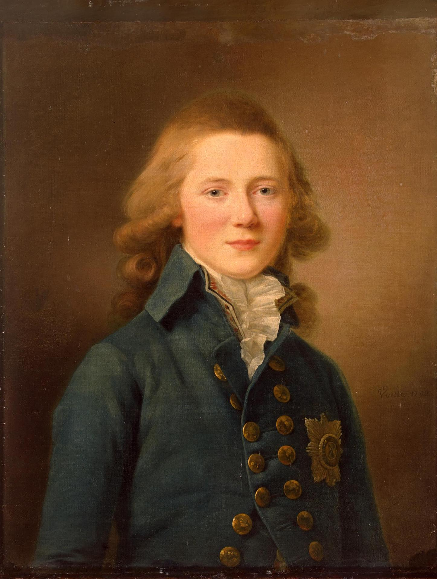 Portrait of Alexander I of Russia (1777-1825)